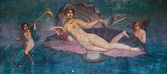 Fresco from Pompei, Casa di Venus, 1st century AD. Dug out in 1960. It is supposed that this fresco could be the Roman copy of famous portrait of Campaspe, mistress of Alexander the Great